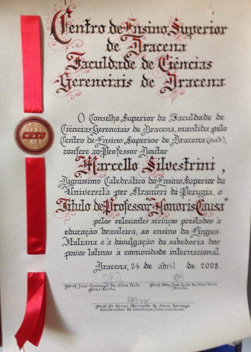 Laurea Honoris Causa offered in the 2008 to my father Prof. Marcello Silvestrini by University of Dracena, Brasil